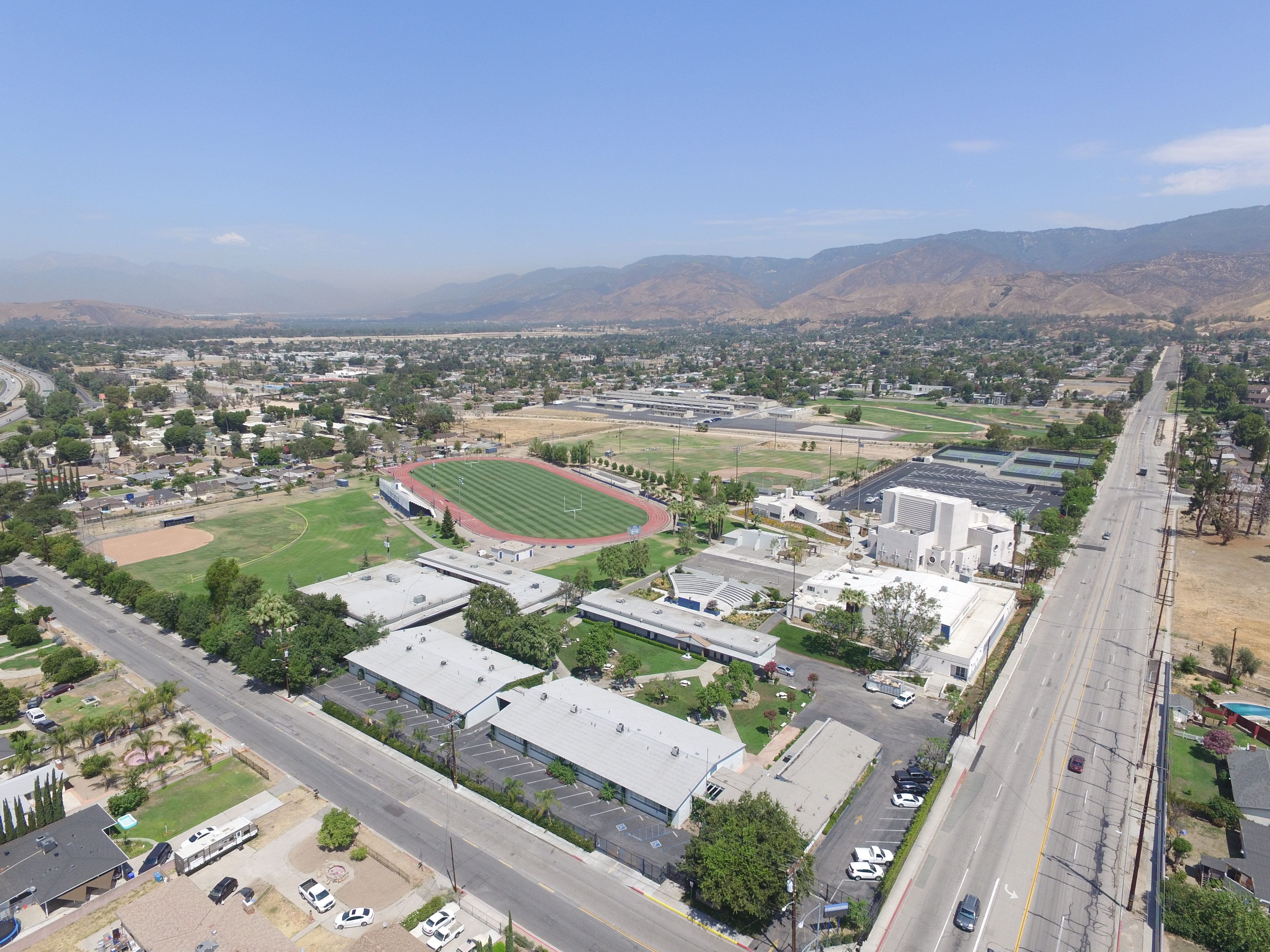 Picture of the Aquinas campus